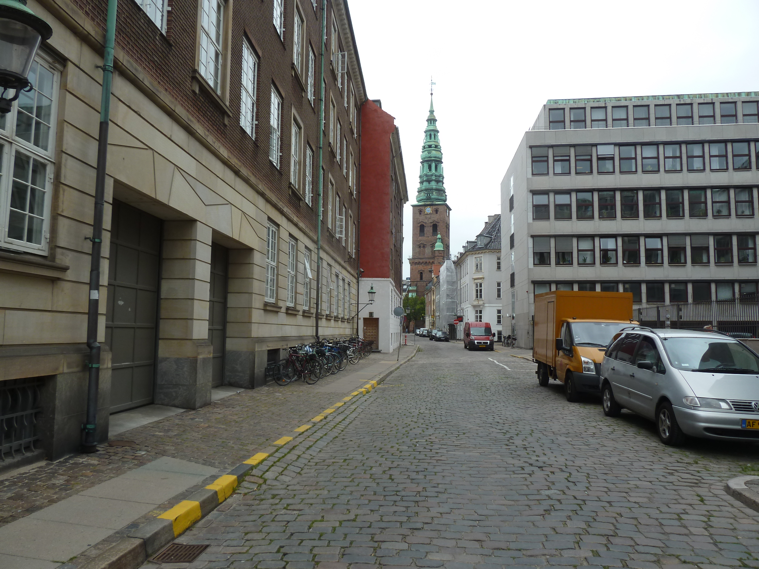 The street Admiralgade in Indre By in Copenhagen.